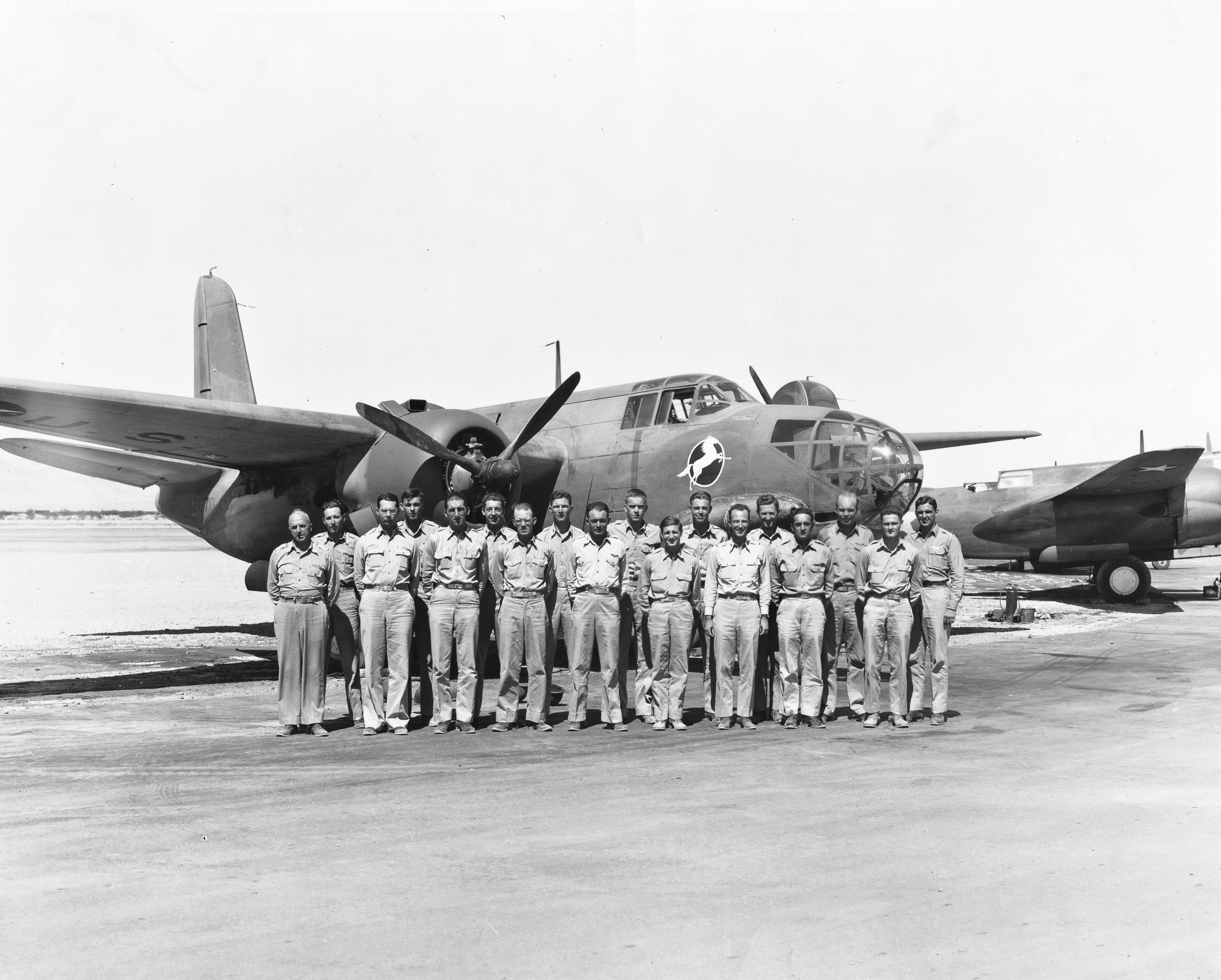 Photograph of the 87th Bomb Squadron at Blythe Army Air Field in 1942.